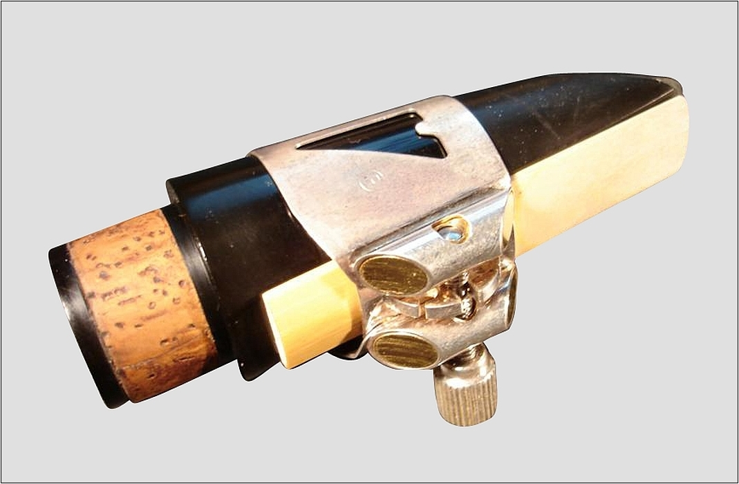 Selmer C85 120 Mouthpiece, Vandoren V12 Strength 3 Reed, Vandoren Optimum Ligature. мундштук и трость